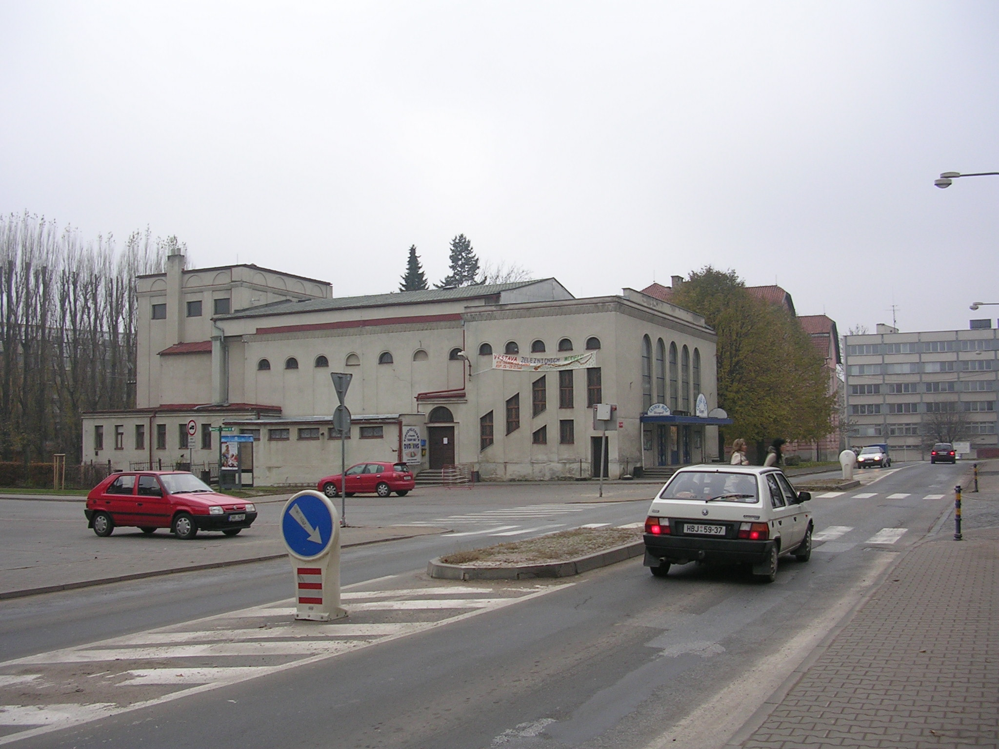 Jičín, Hradec Králové Region, the Czech Republic.